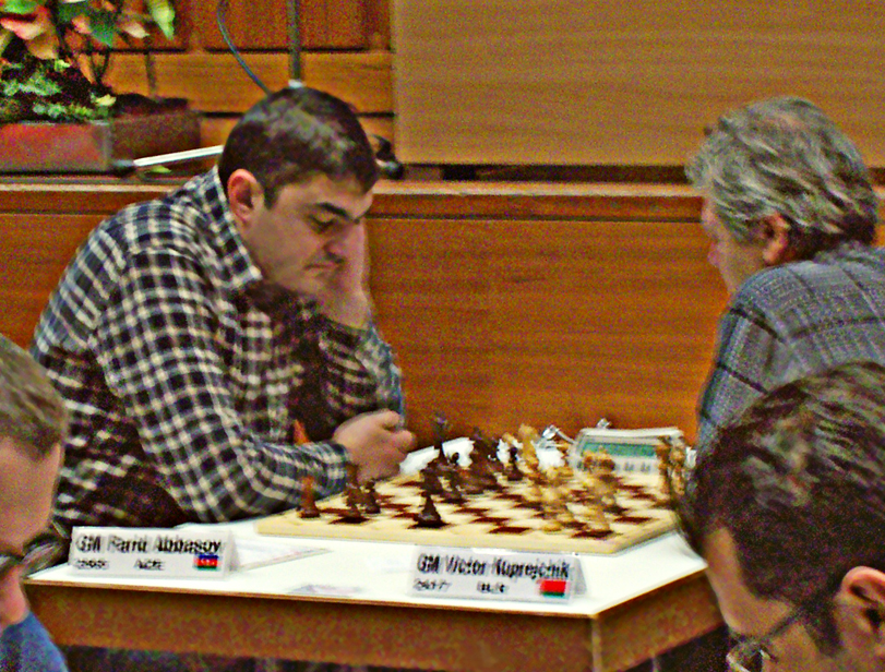 Farid Abbasov, Azerbaijan chess grandmaster